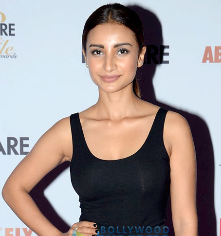 Patralekha gracing ‘Filmfare Glamour & Style Awards 2016’